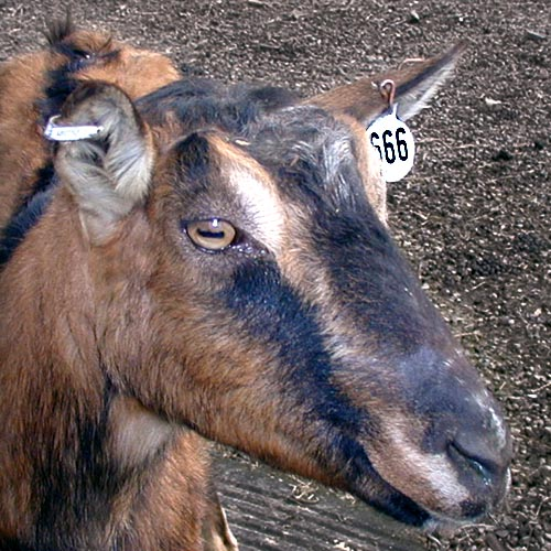 Goat Lilith: "Our goat Lilith, when she was rescued from the abattoir, came with this ear tag attached!"